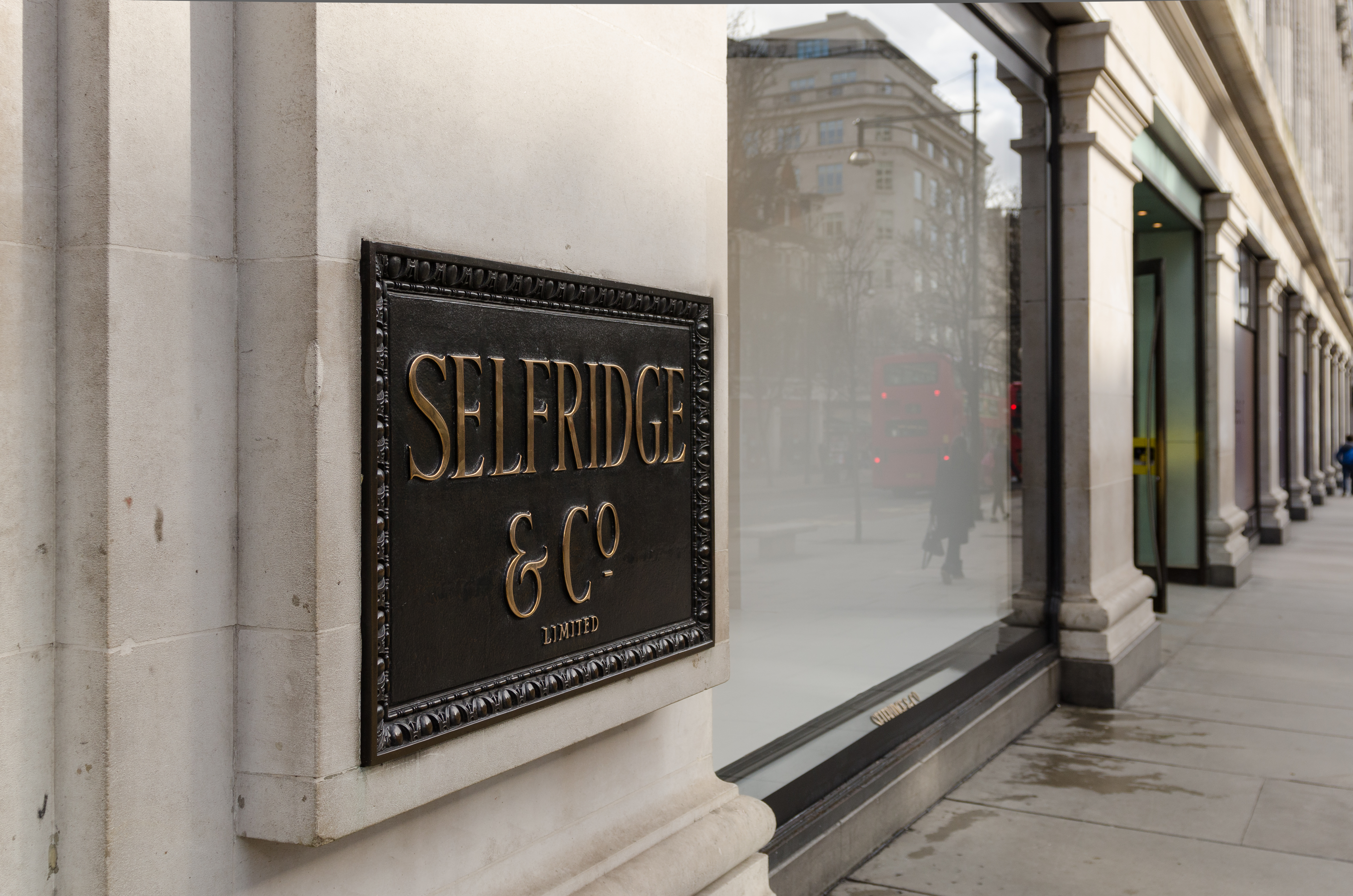 Nameboard at Selfridges, Oxford Street store.